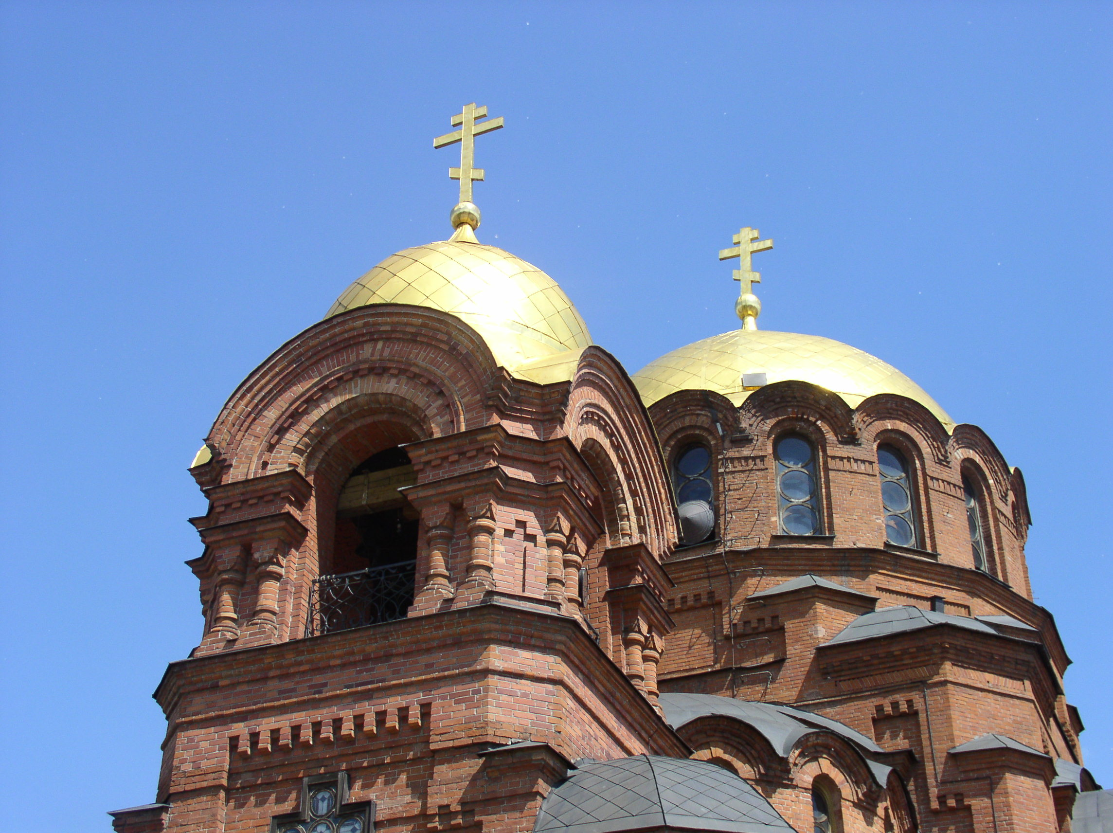 Alexander Nevsky Cathedral in Novosibirsk